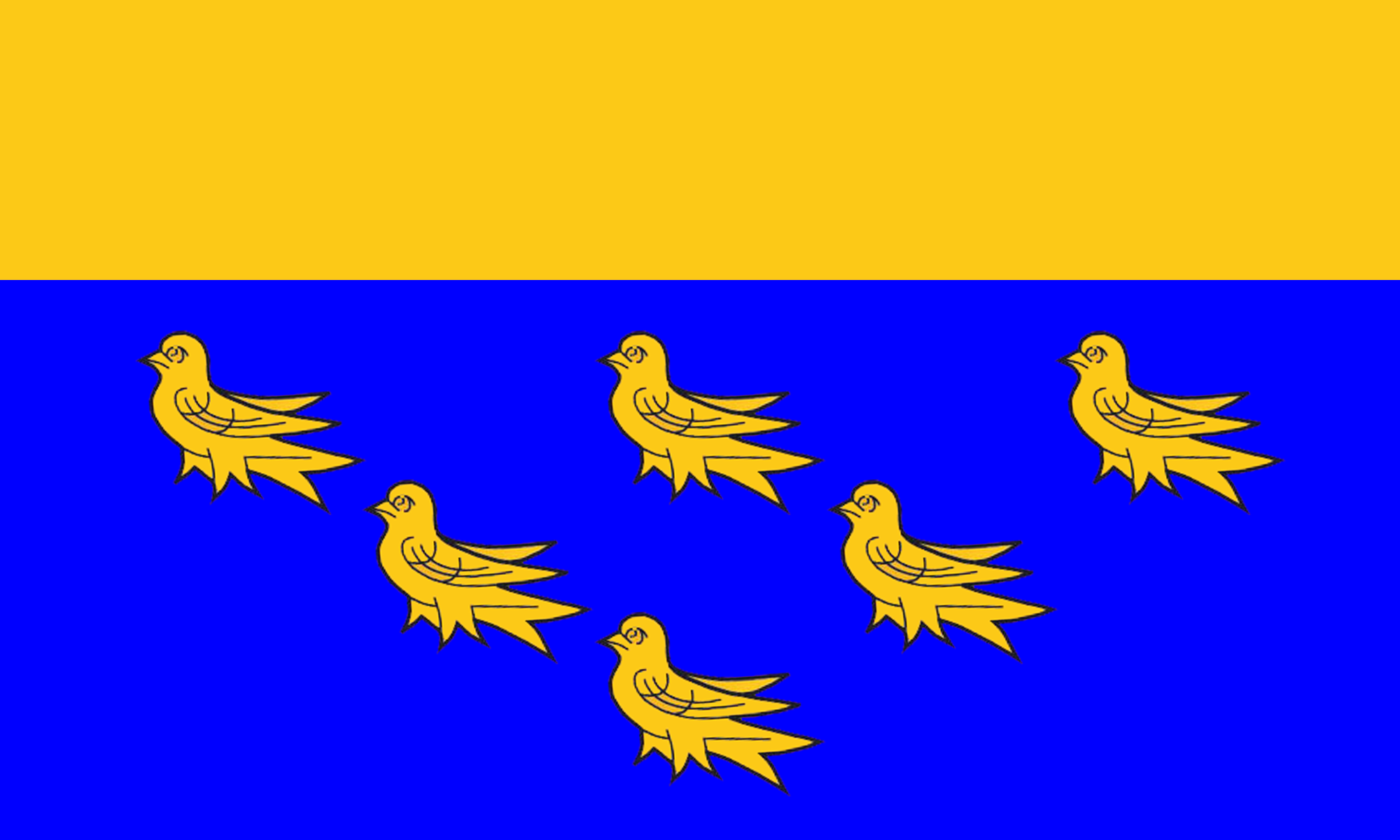 The County Flag of West Sussex, based closely on the arms of West Sussex County Council.